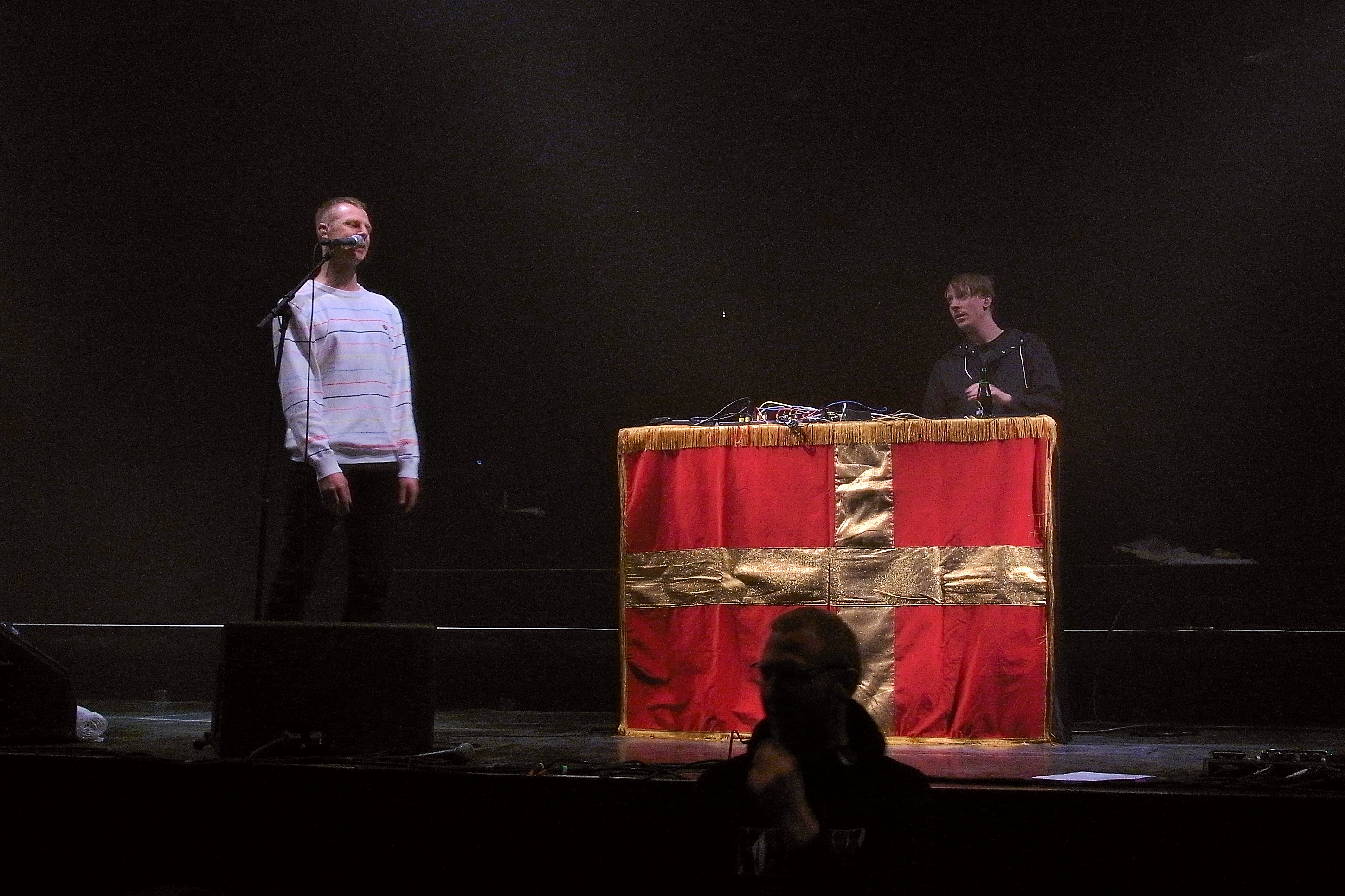 Swedish synthpop band Familjen on stage, during their tour as opening act for Kent.